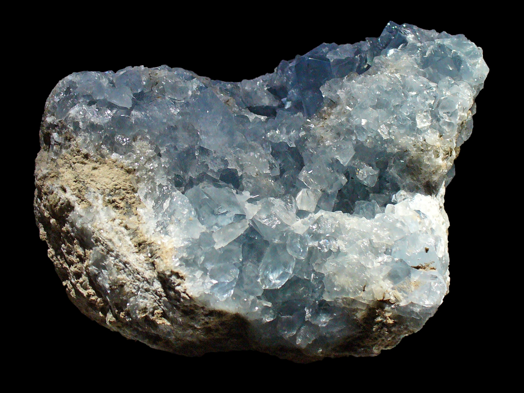 Celestine, SrSO4; Staatliches Museum für Naturkunde Karlsruhe, Germany.